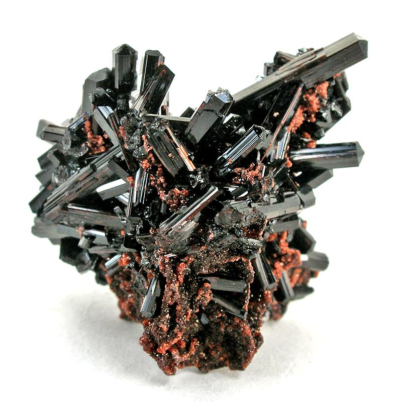 Vesuvianite Locality: Wessels Mine (Wessel's Mine), Hotazel, Kalahari manganese fields, Northern Cape Province, South Africa (Locality at ) Size: miniature, 4.2 x 3.9 x 3.3 cm Mangan-Vesuvianite NOT a Gaudefroyite ! this one fooled us at first, too! It is a SUPERB mangan-vesuvianite with deep wine-red color when backlit, so you can be sure of the ID. This specimen features xls of the highest quality and the best lustre, almost glassy in brightness - rare for the species. There is some damage to smaller crystals, but most major crystals are complete, and the display is phenomenal. The matrix is sparkling, minutely crystallized andradite garnet. The large single crystal atop is doubly-terminated and almost 2 cm long tip to tip.